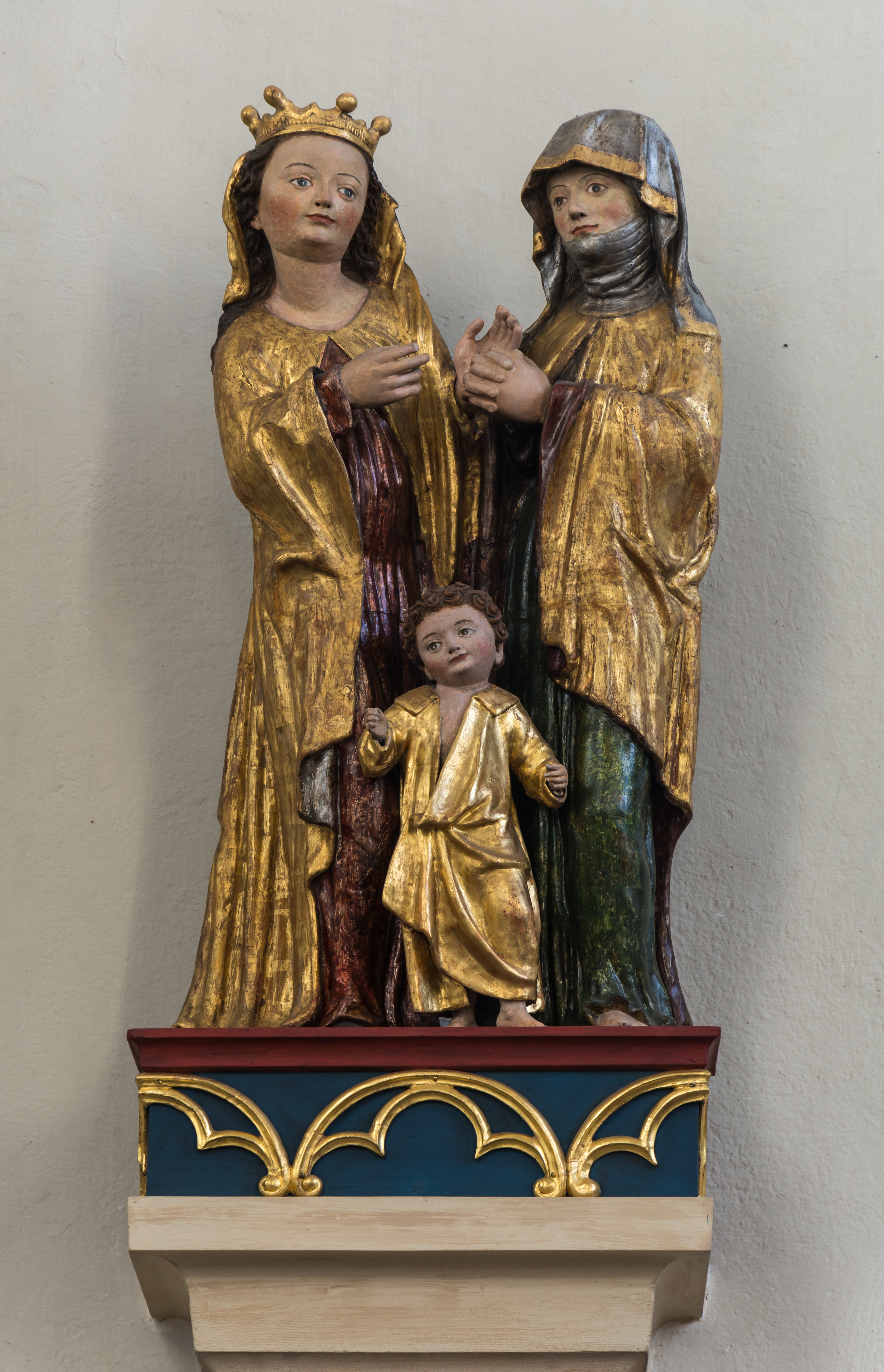 Virgin and Child with Saint Anne at St. Anna parish church Pöggstall, Lower Austria. Anonymous master, around 1480.